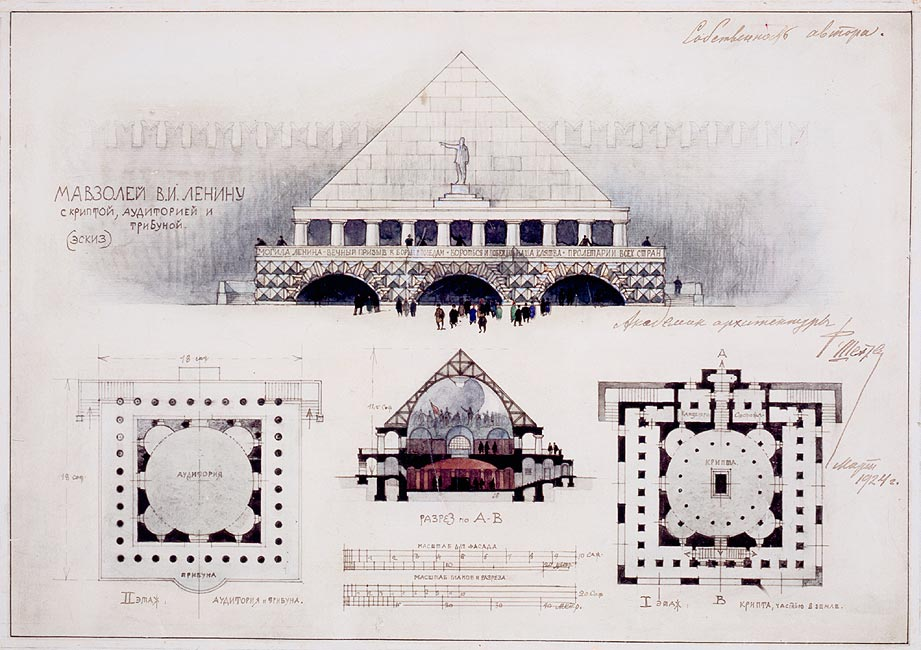 Fyodor Schechtel. Draft of the Lenin Mausoleum